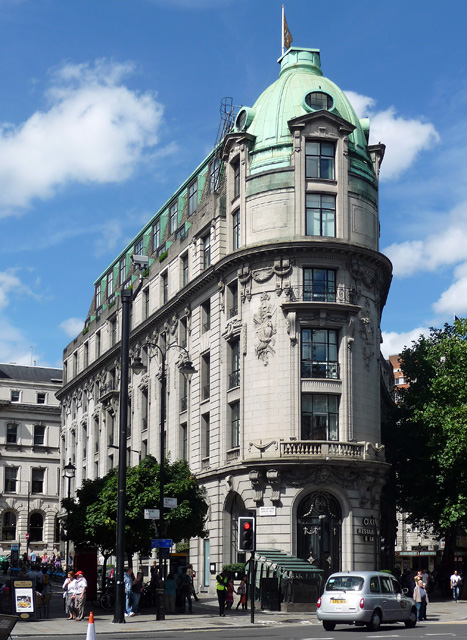 1 Aldwych